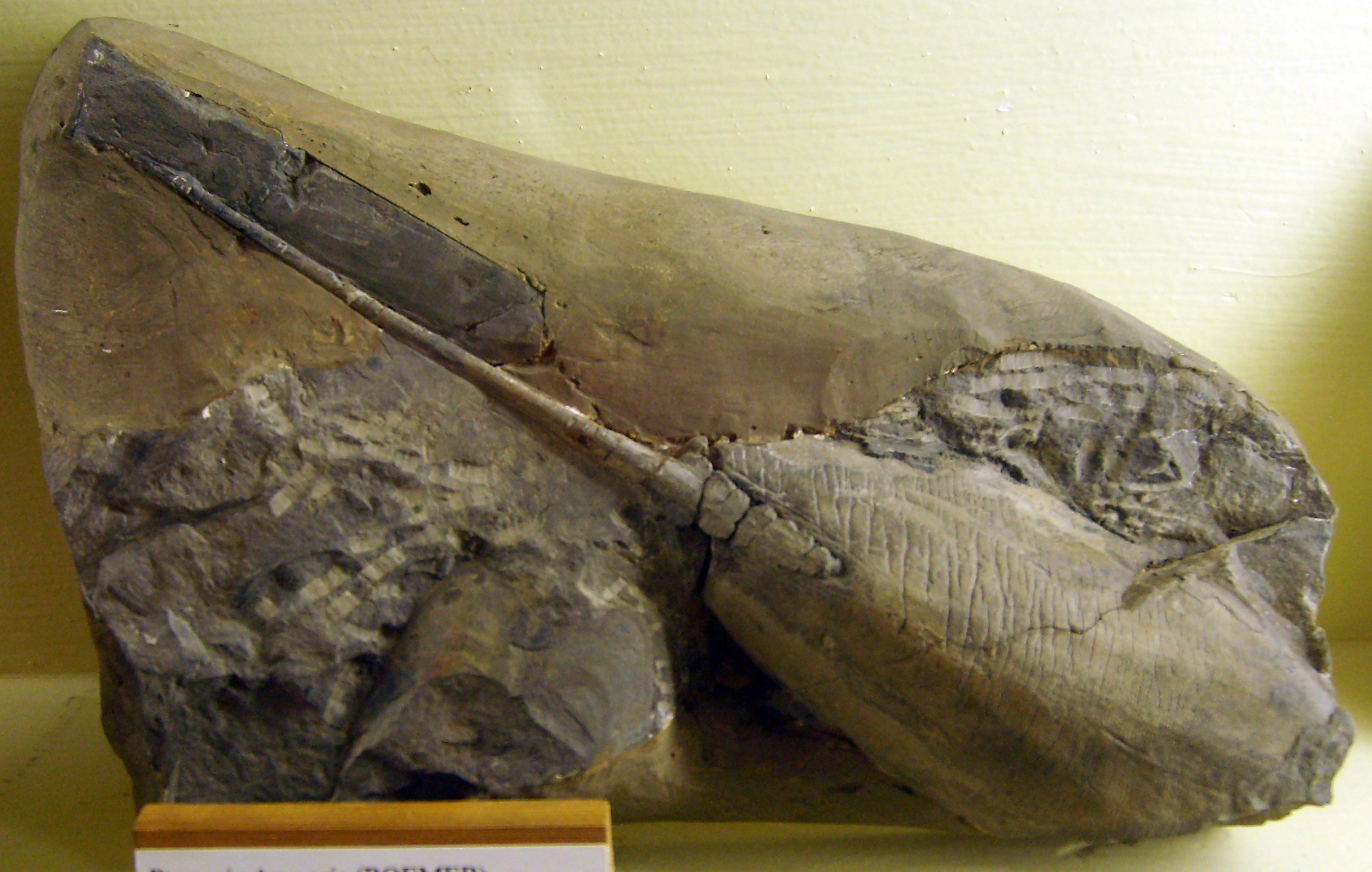 Rhinopteraspis dunensis (formerly Pteraspis) back armour fossil at the Museum für Naturkunde, Berlin.